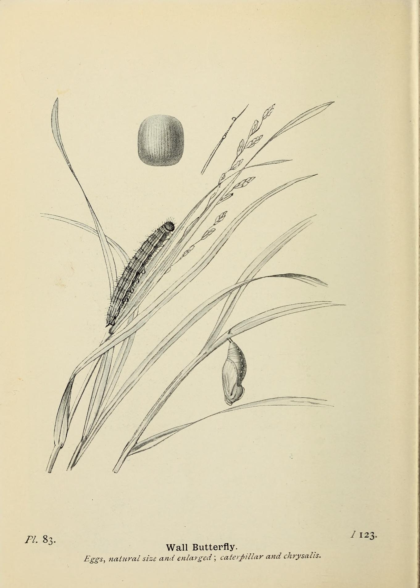 South1906Plate83